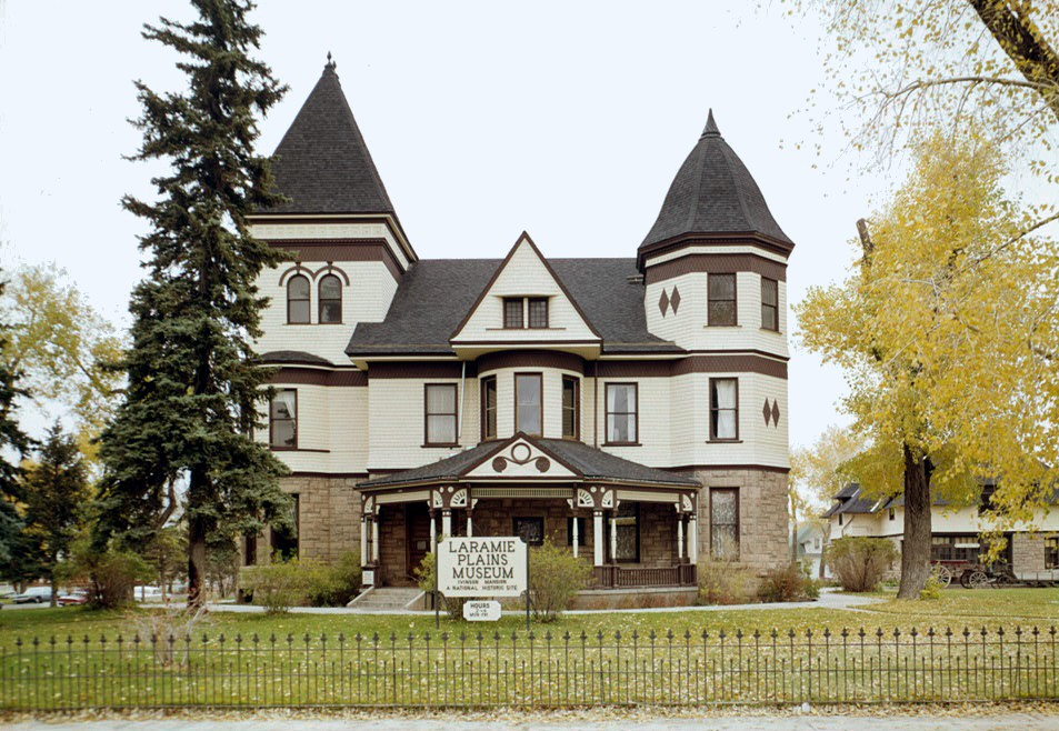 Front of the Laramie Plains Museum (originally the Ivinson Mansion and Grounds), located at 603 Ivinson Avenue in Laramie, Wyoming, United States. Built in 1892, the museum building is listed on the National Register of Historic Places.